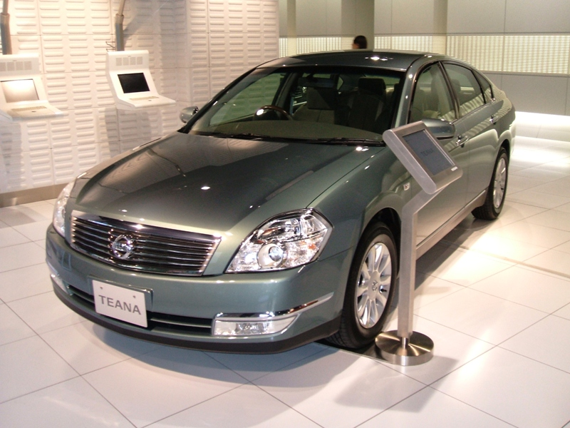 Nissan Teana J31.